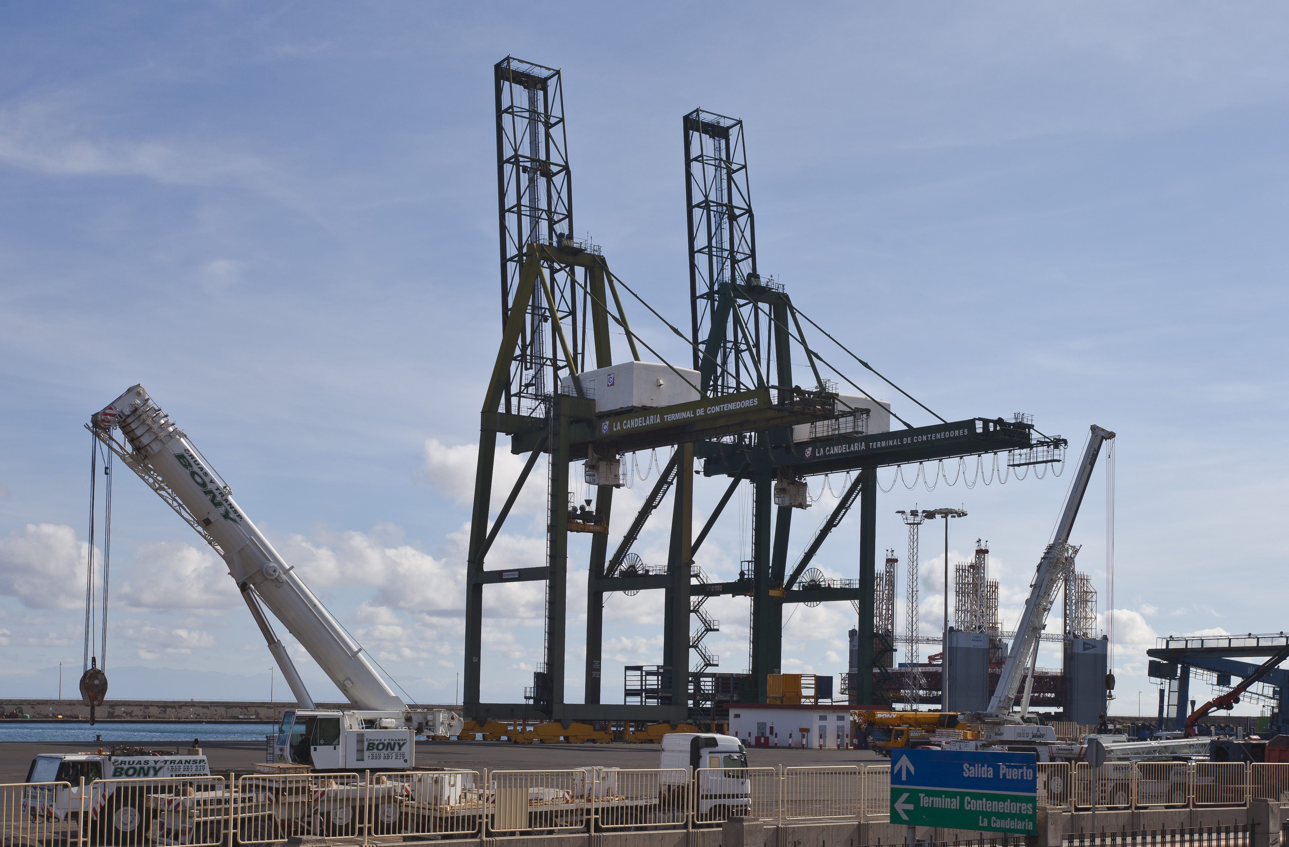 Port of Santa Cruz de Tenerife, Santa Cruz de Tenerife, Spain